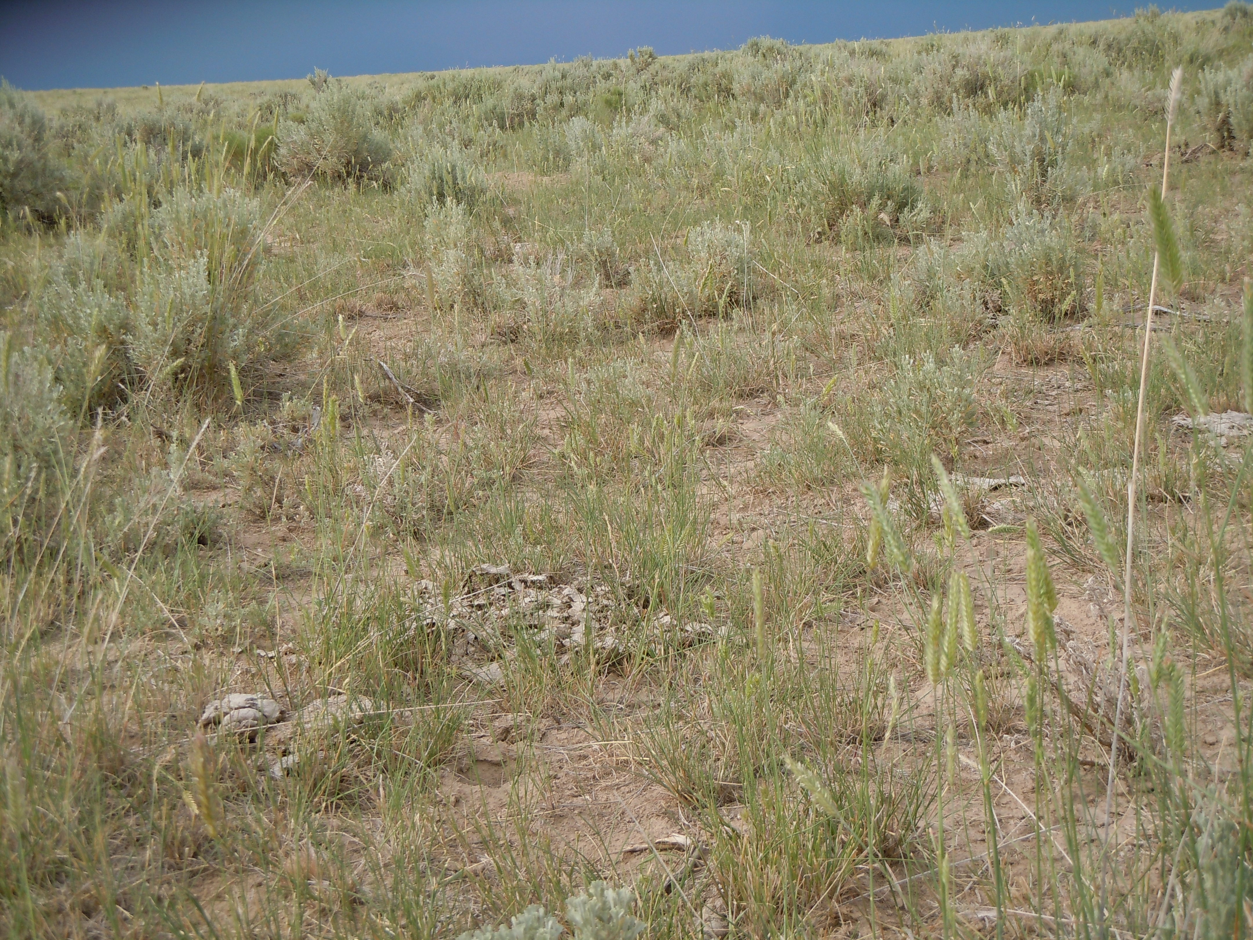 One of many scenes where crested wheatgrass predominates (even if as stubble) on the north side of Big Southern Butte.